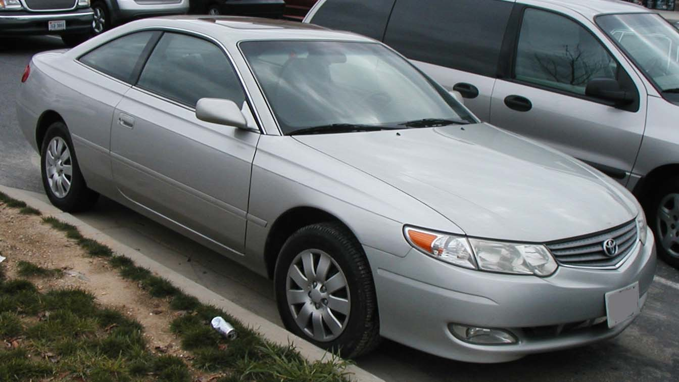 2002-2003 Toyota Solara coupe photographed in USA.